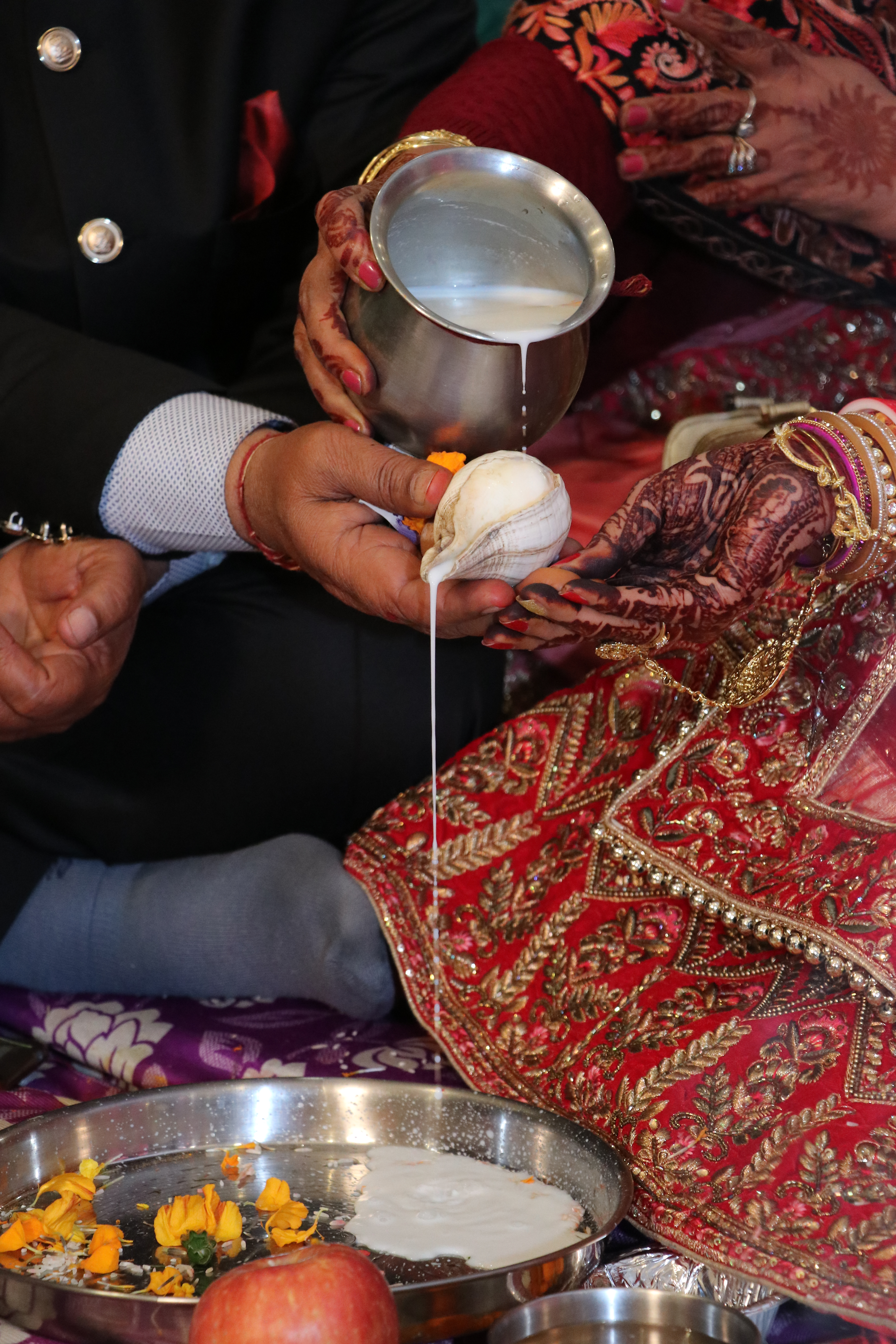 Kanya dan in a Hindu marriage This photo has been taken in the country: India